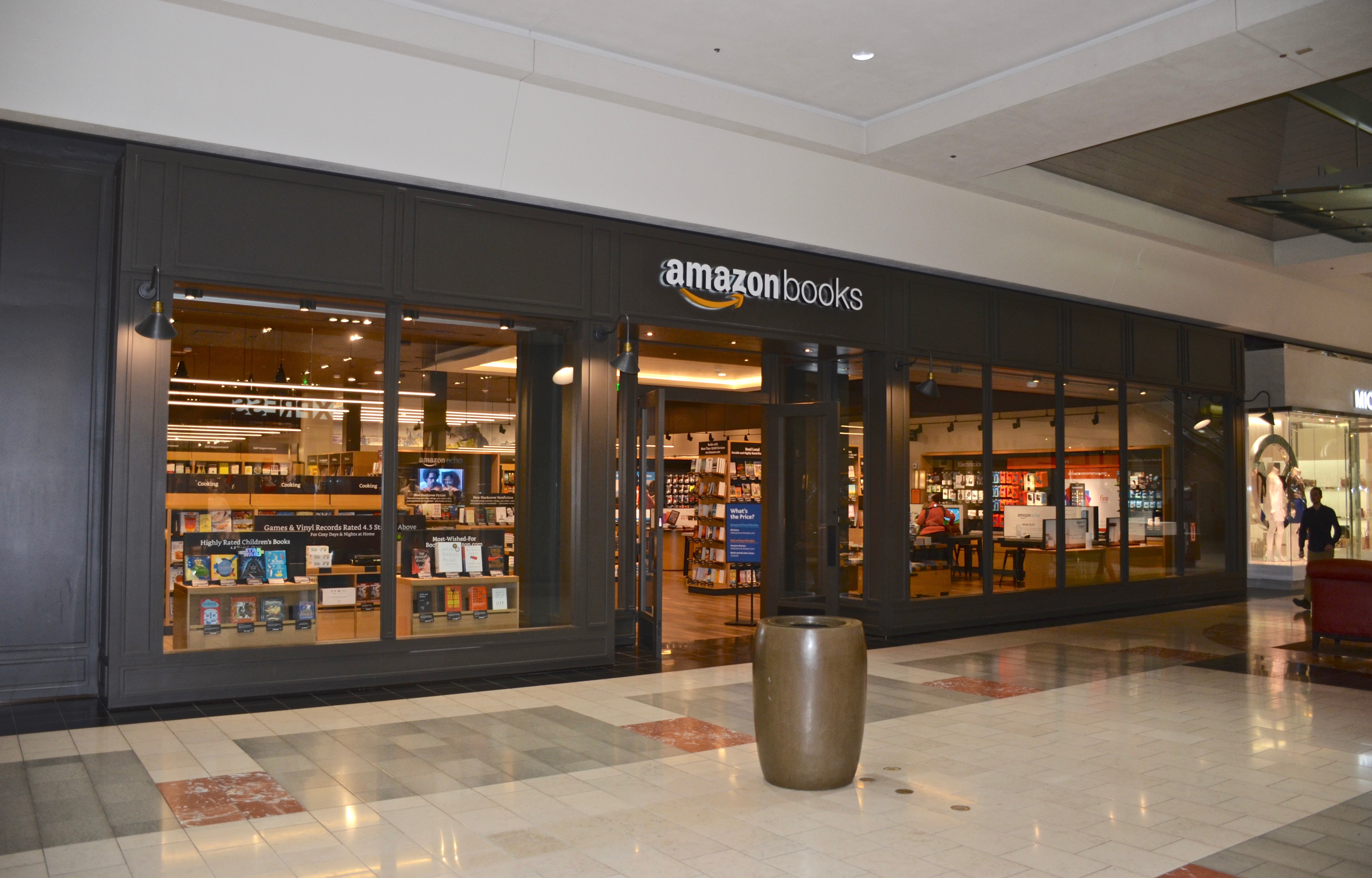 The Amazon Books store at the Washington Square mall, in the Portland suburb of Tigard, Oregon, was the third physical bookstore opened by the longtime online retailer . The store opened in fall 2016.